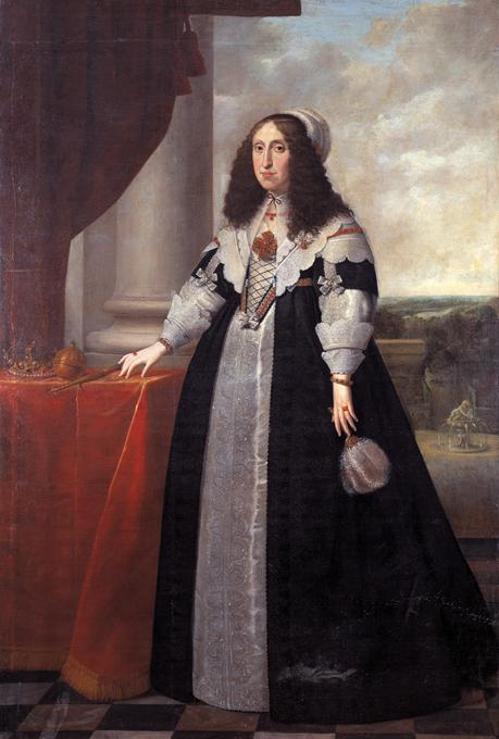 The portrait depicts the Queen standing in the loggia of the Villa Regia Palace (Kazimierzowski Palace) in Warsaw with the famous garden in the background.